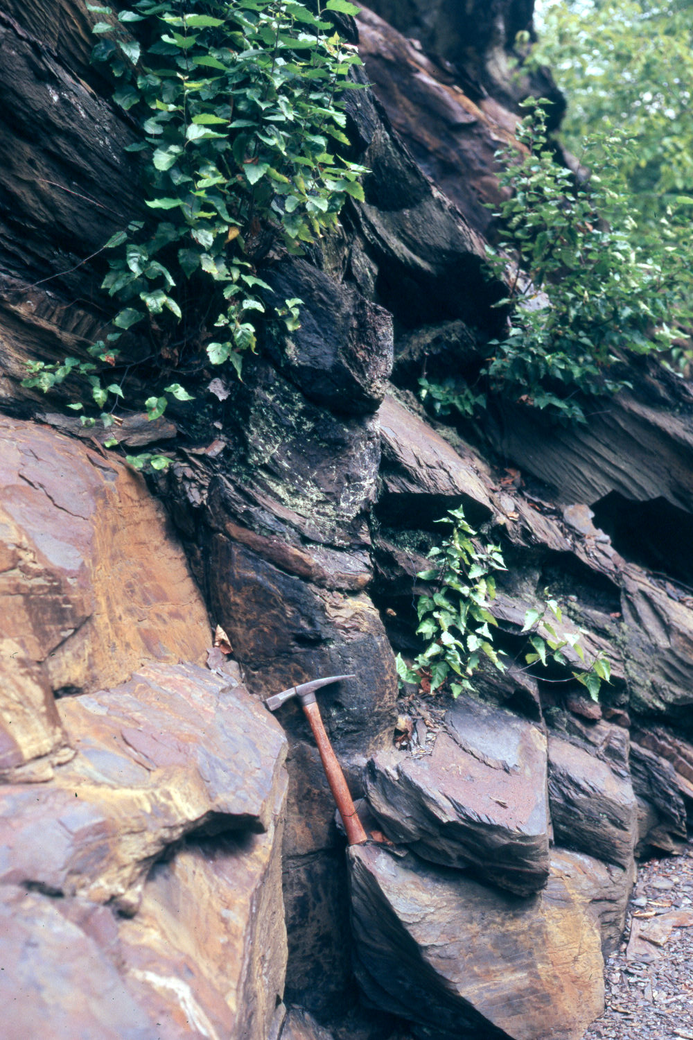 Upright Stigmaria in dipping beds of Pennsylvanian Llewellyn Formation in Bear Valley Strip Mine, Northumberland County, Pennsylvania. So-called Polystrate fossil. Taken 1998.